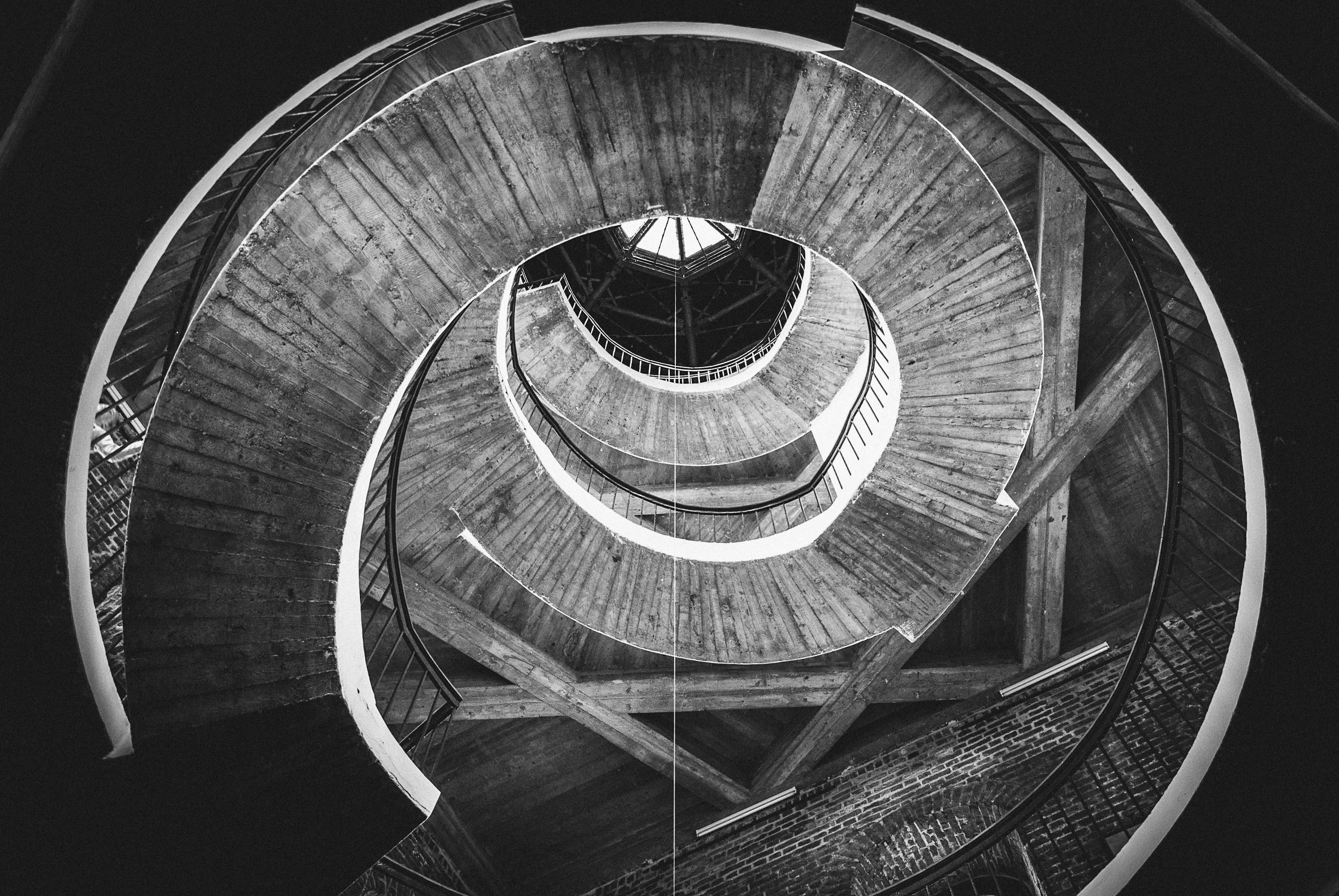 Frombork, wieża Radziejowskiego (dzwonnica)